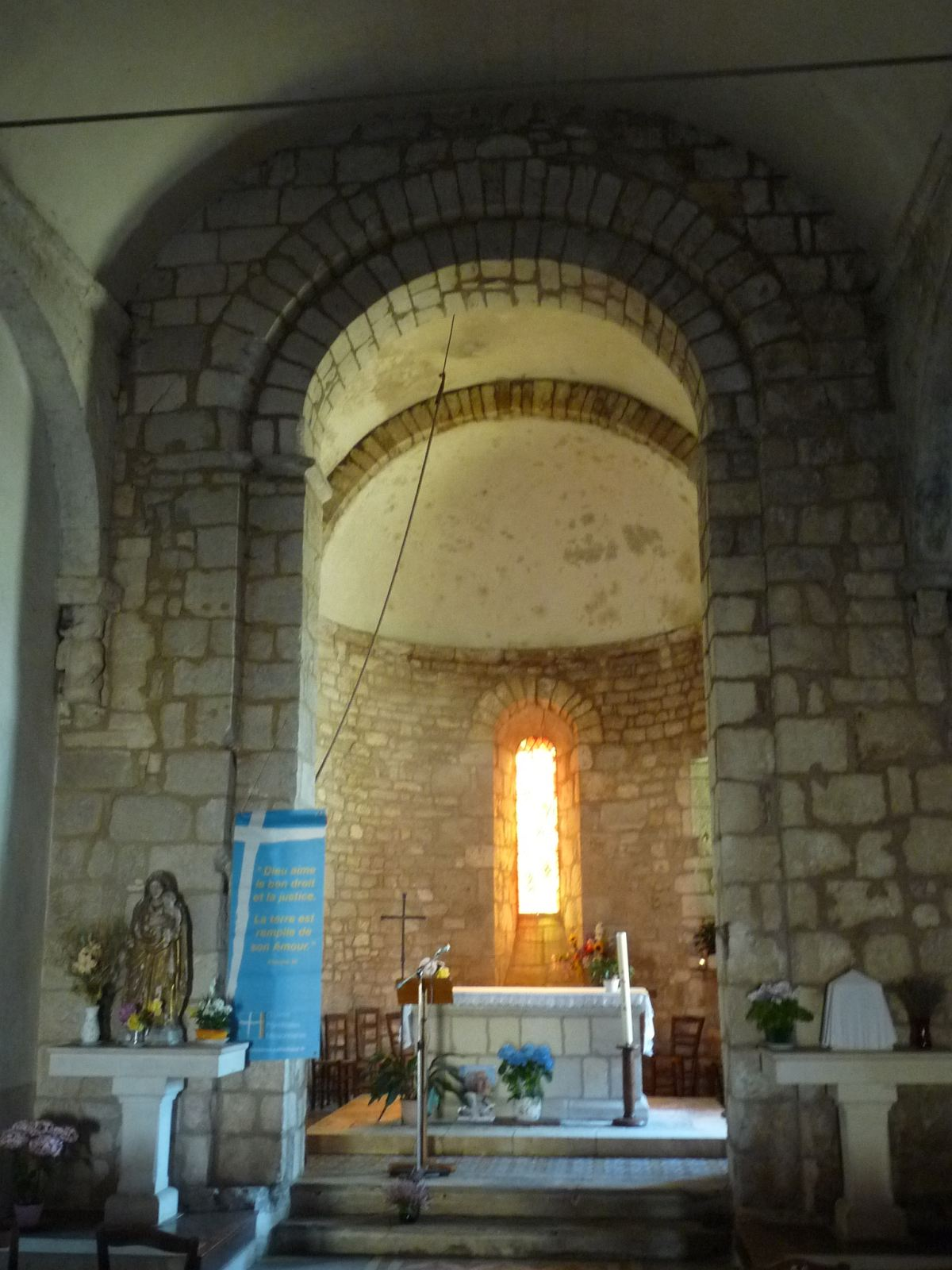 church of Saint-Angeau, Charente, SW France